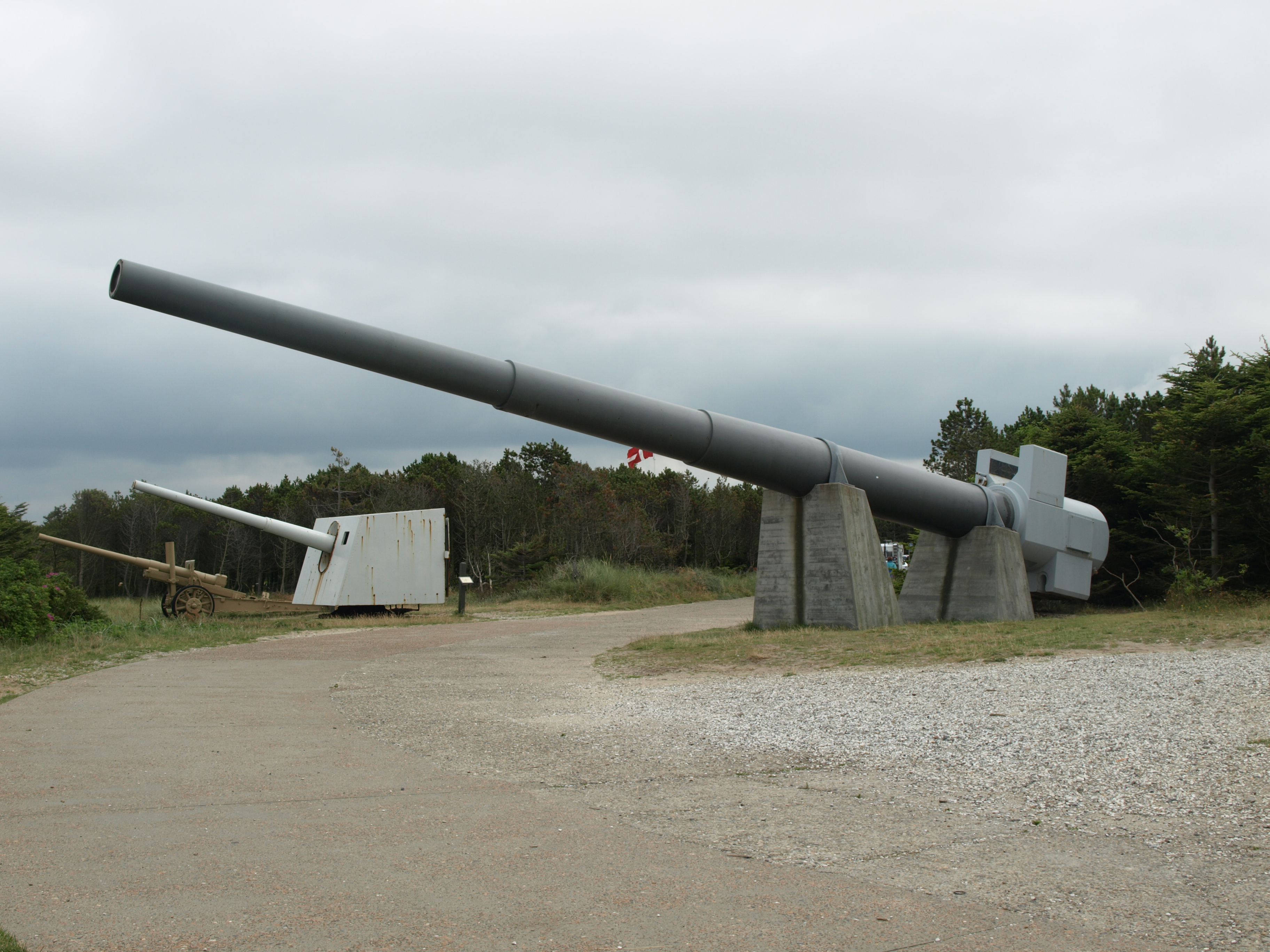 Bunker Museum Hanstholm, North Jutland Region, Denmark